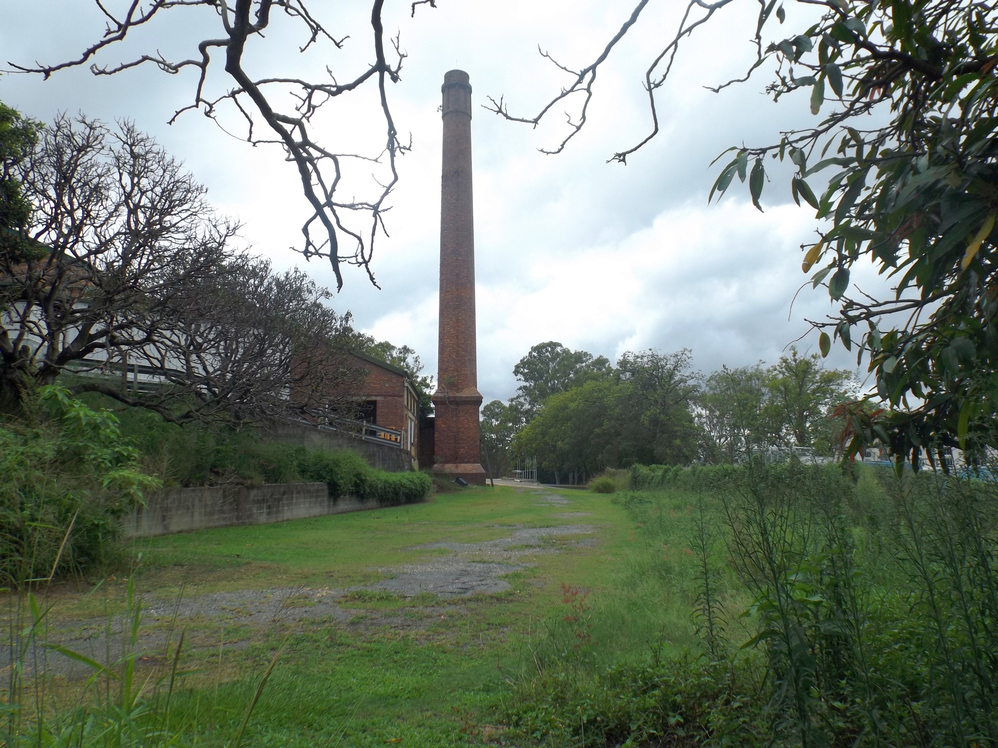 Photo of Commonwealth Acetate of Lime Factory chimney at Morningside, Brisbane, Queensland, Australia.